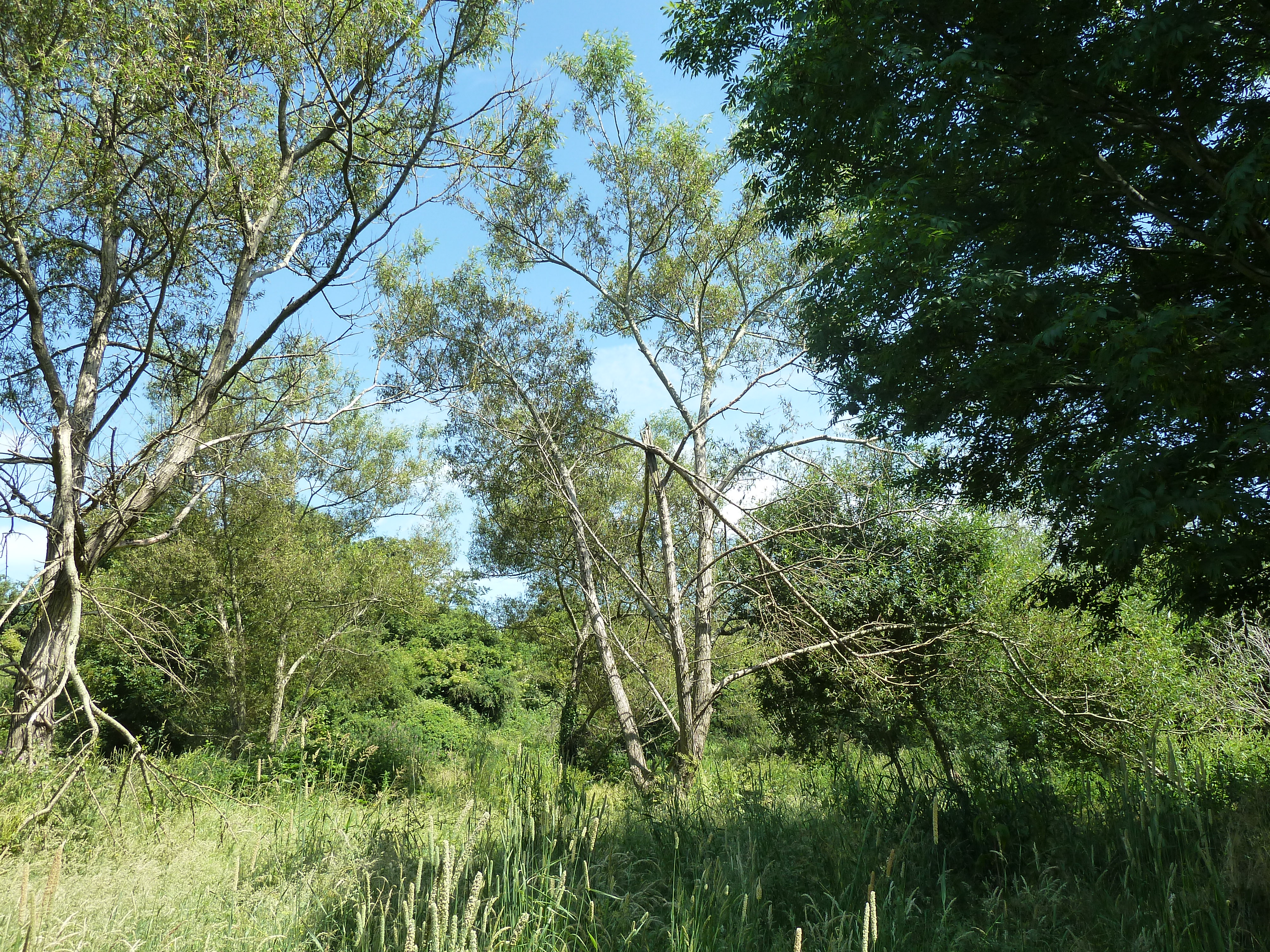 Hilden, Co. Antrim, Ireland, July. Salix cinerea L.